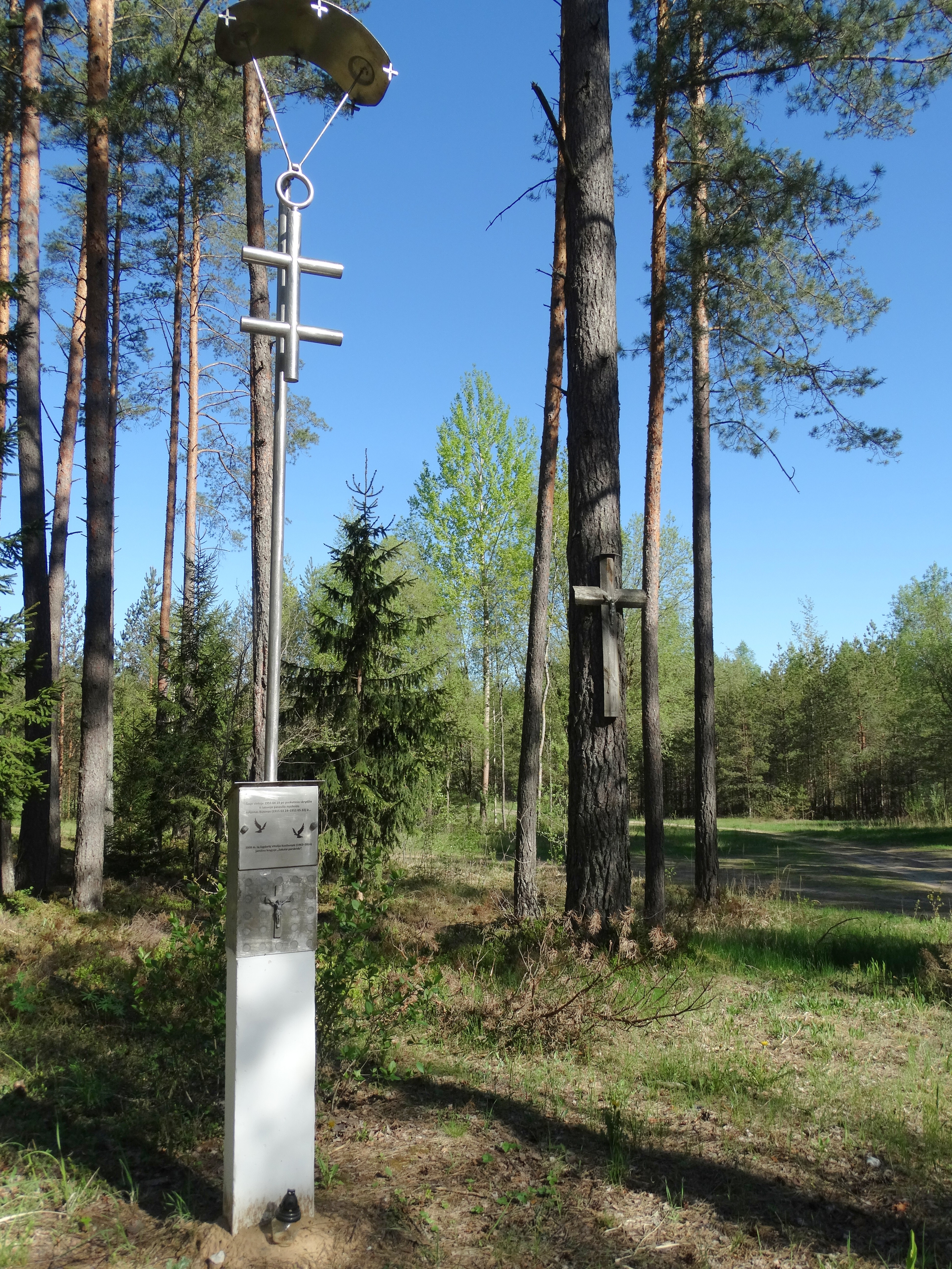 Julijonas Būtėnas memorial cross with parachute, Kazlų Rūda municipality, Lithuania